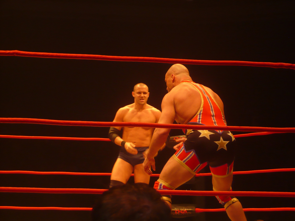 TNA wrestling Superstars, Desmond Wolfe and Kurt Angle.